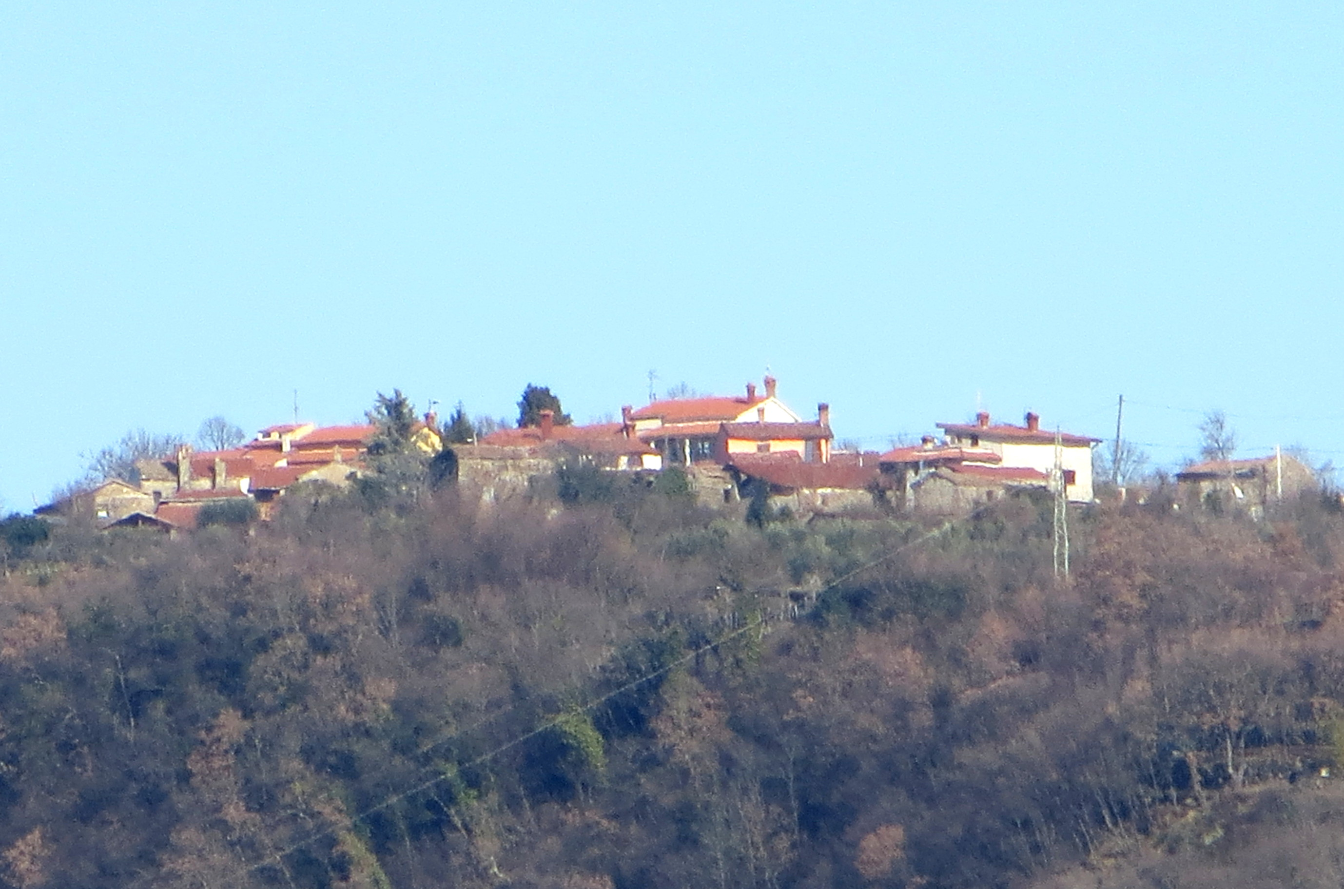 The hamlet of Škrljevec in Glem, Municipality of Koper, Slovenia